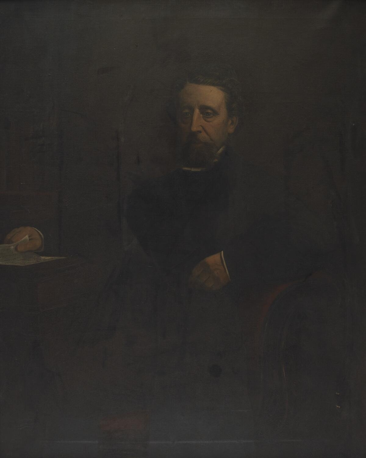 A painting from the Framed Works of Art collection at the National Library of wales.